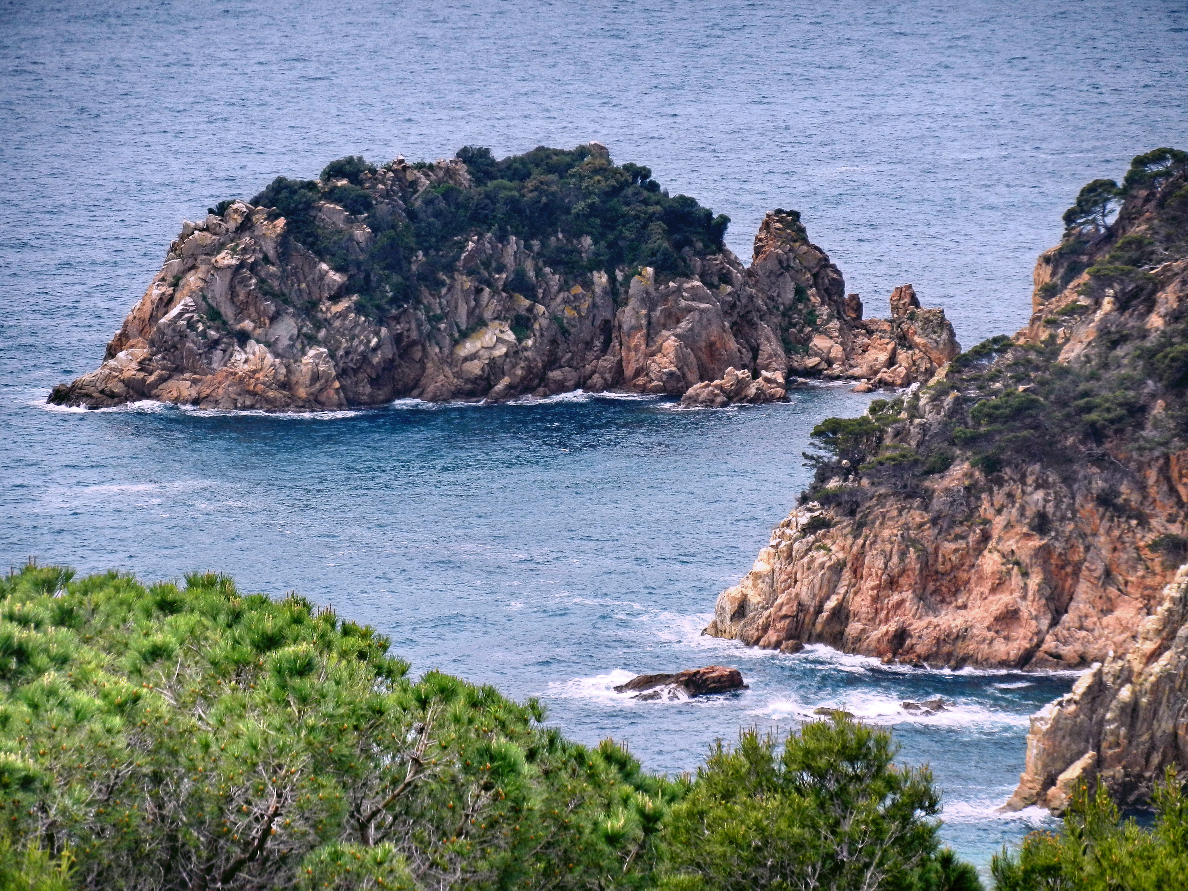 Costa Brava on the road G4 682